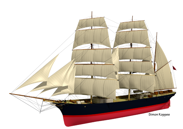 Drawing of the Australian sailing ship James Craig